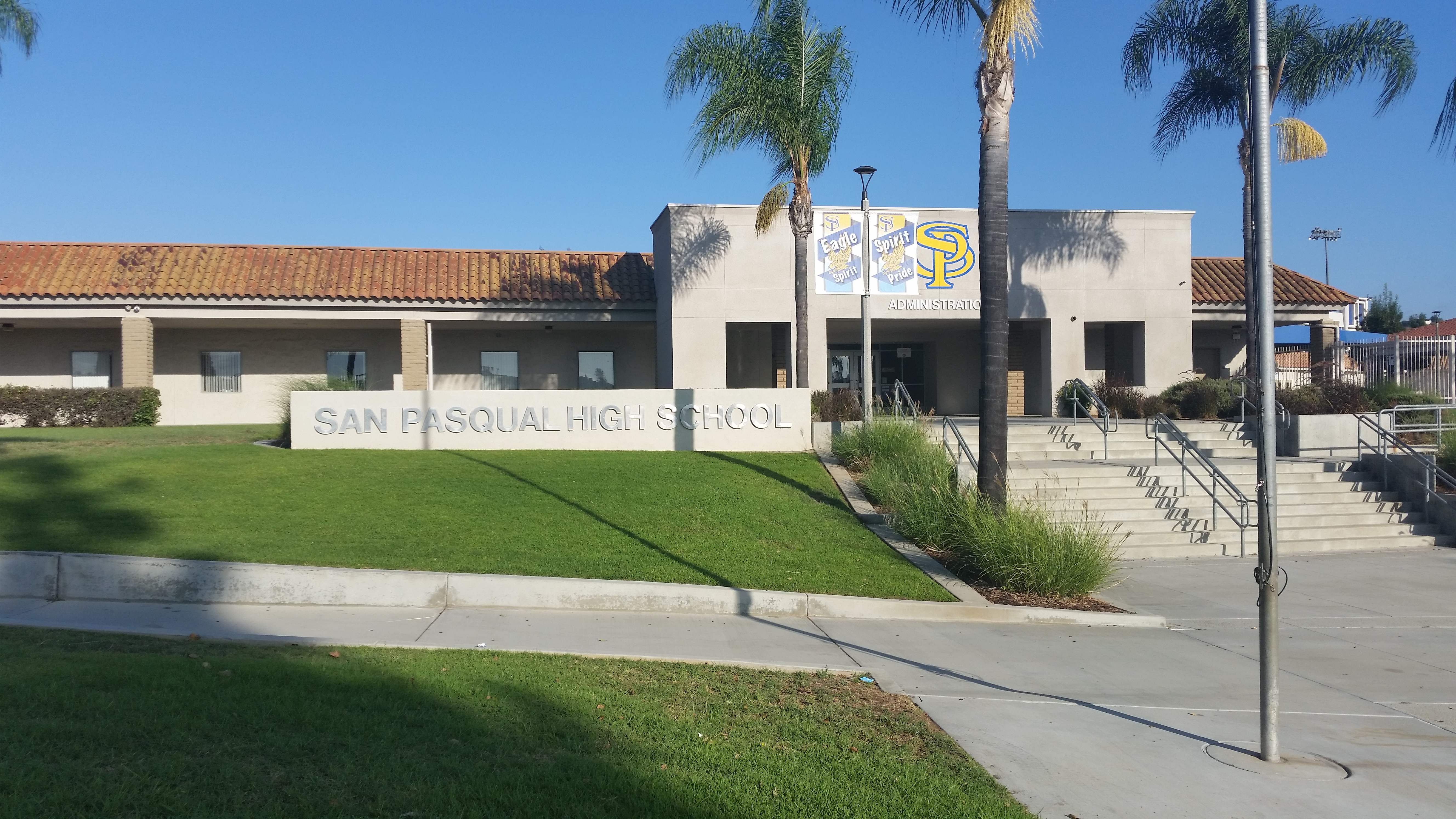 West exterior of San Pasqual High School